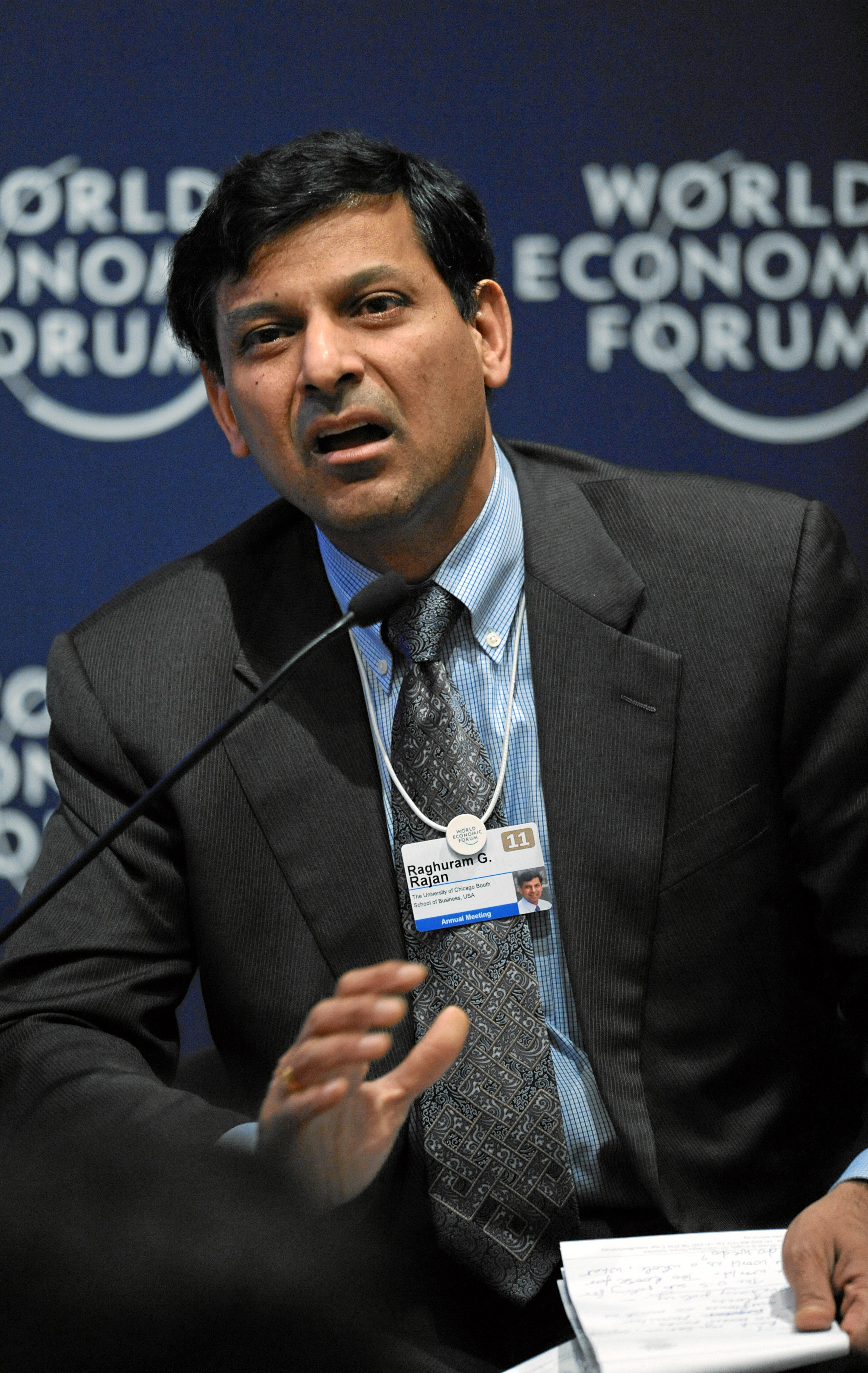 DAVOS/SWITZERLAND, 27JAN11 - Raghuram G. Rajan, Eric J. Gleacher Distinguished Service Professor of Finance, University of Chicago Booth School of Business, USA; Global Agenda Council on the International Monetary System, speaks during the session 'Redesigning the International Monetary System: A Davos Debate' at the Annual Meeting 2011 of the World Economic Forum in Davos, Switzerland, January 27, 2011. Copyright by World Economic Forum by Michael Wuertenberg